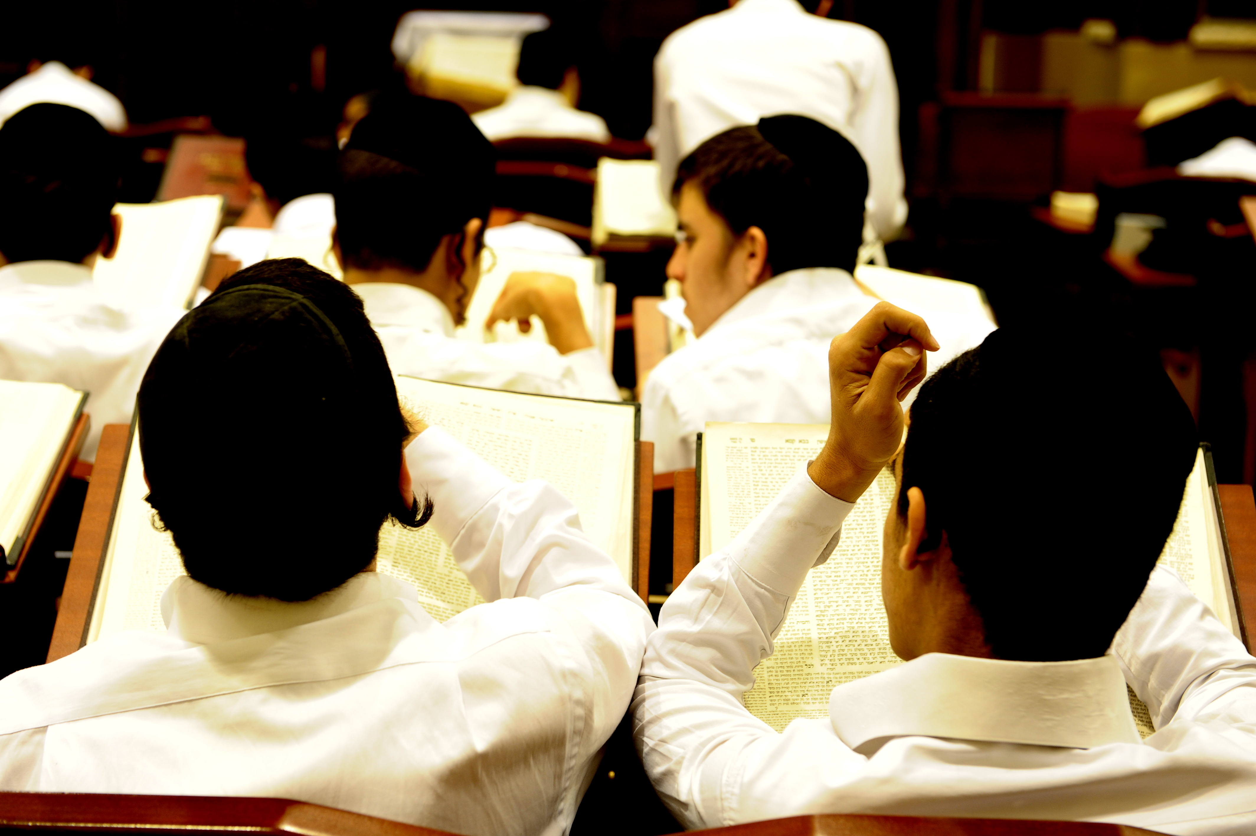 limud in the yeshiva or elhanan tiberya